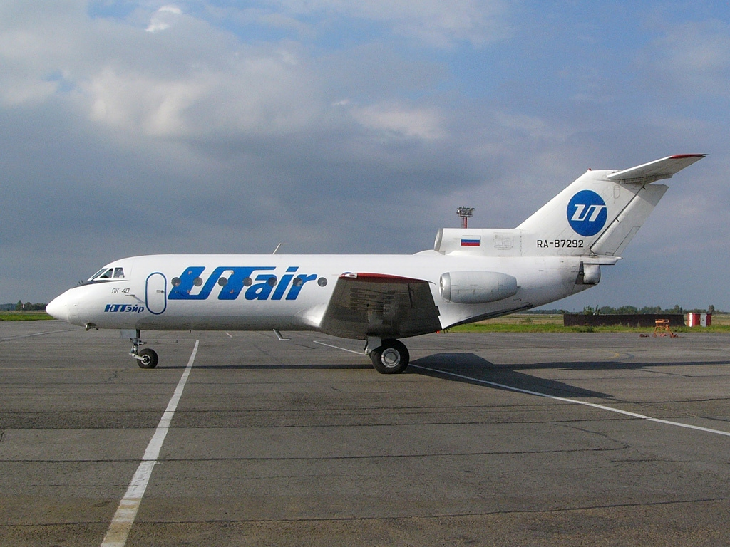 Regular flight to North. Taxi to runway.